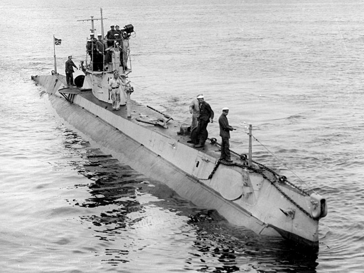 The Soviet submarine Kommunist.